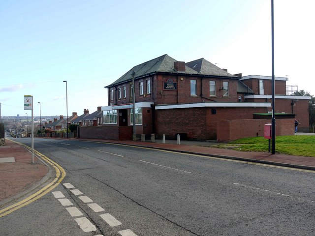 Throckley Bank Top Club, Hexham Road